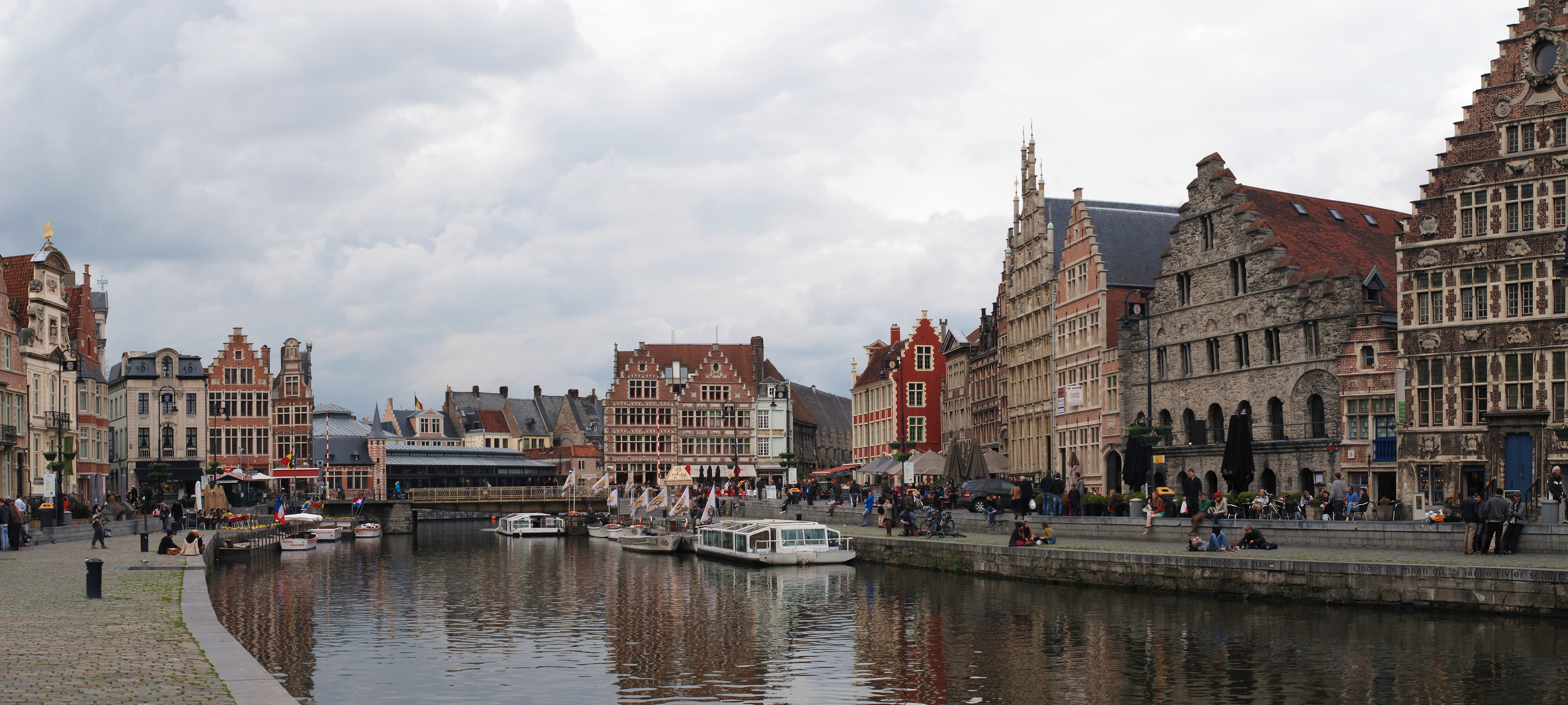 View into the Graslei Street, Ghent, Belgium